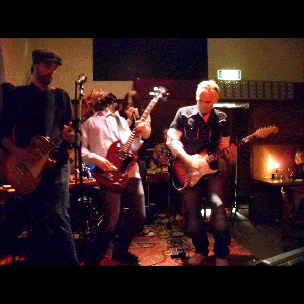 A gif-animation of various concert photos of Reform. From Stampen, Underbara Bar and Sjöhästen.